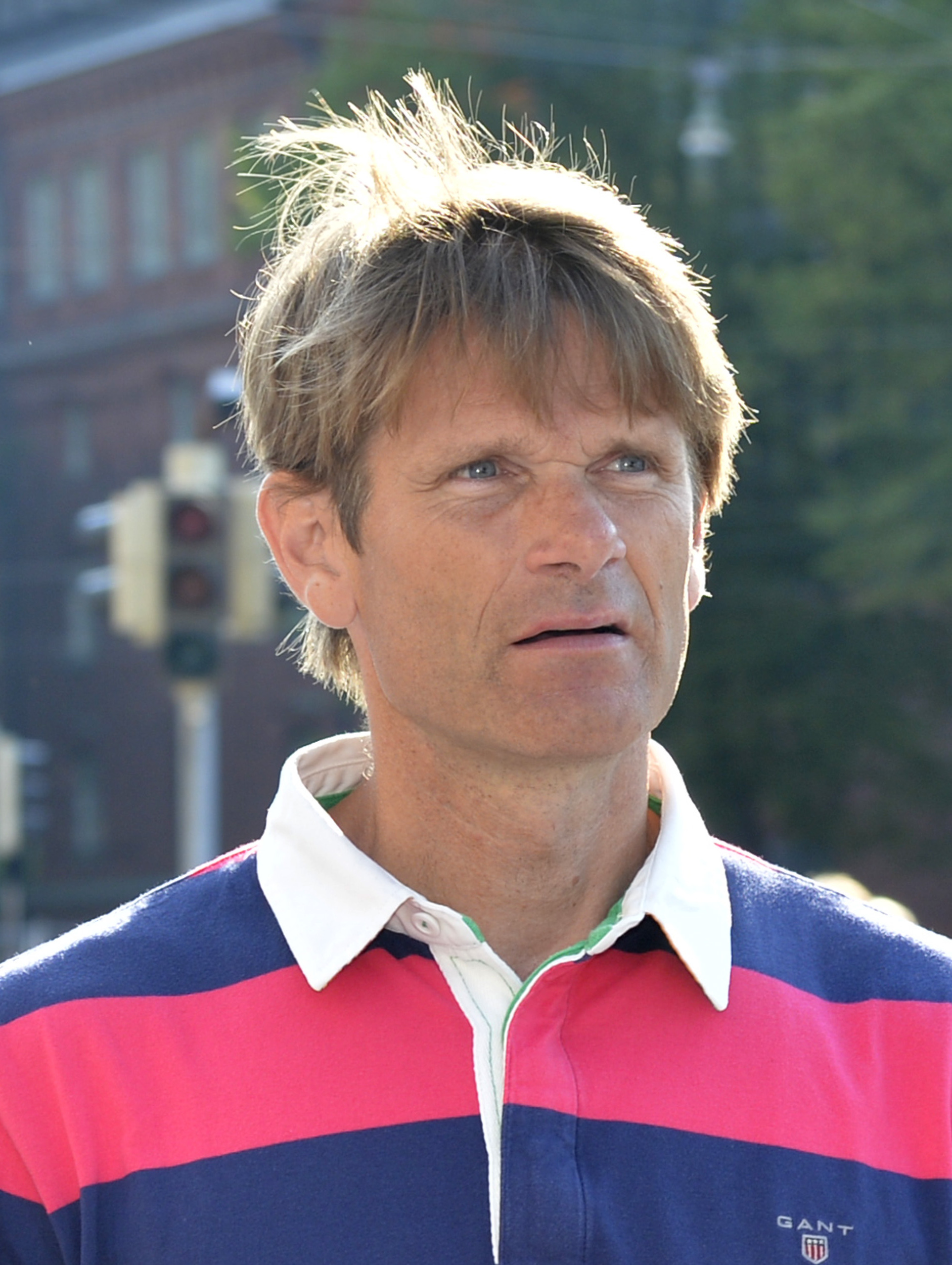 Two-time rally world champion Marcus Grönholm.